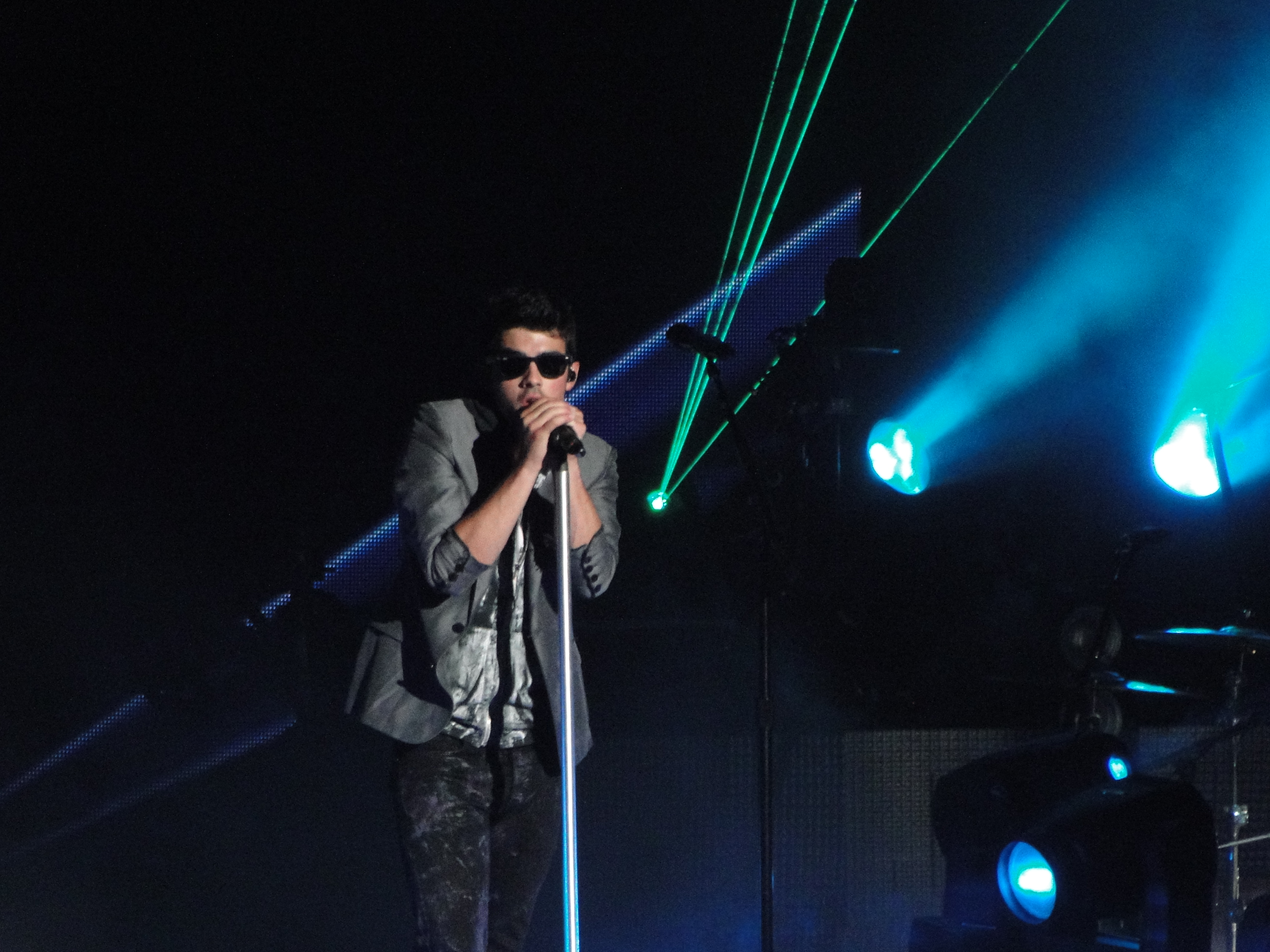 Joe Jonas on stage in 2010.